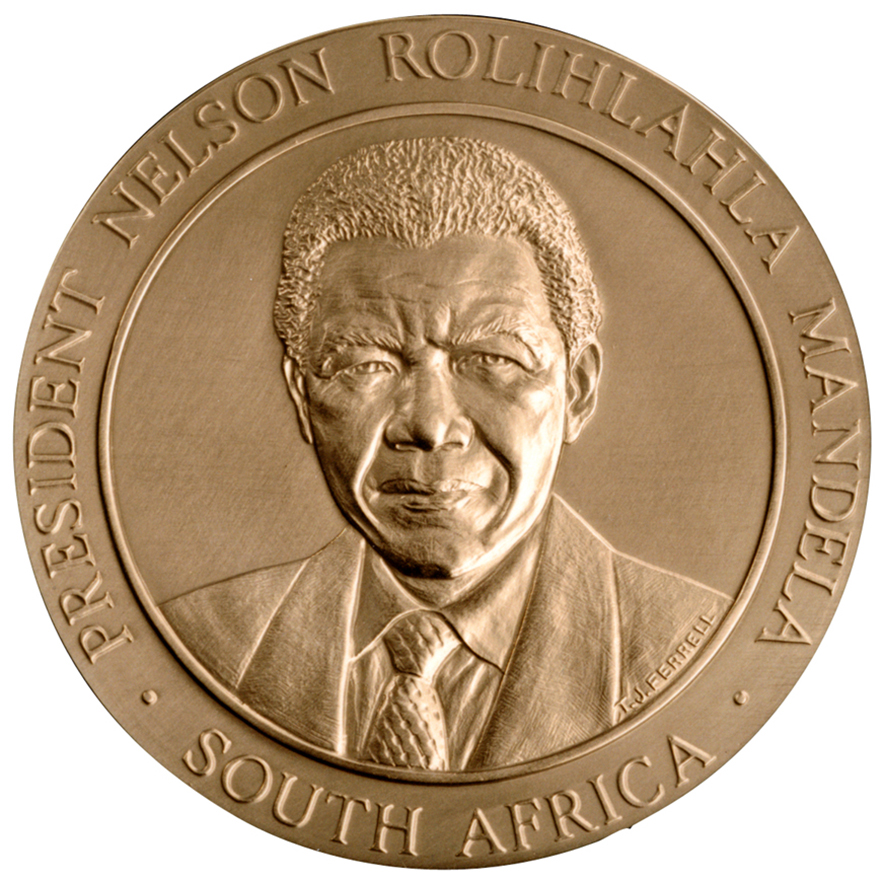 Obverse – T. James Ferrell Reverse – Thomas D. Rogers